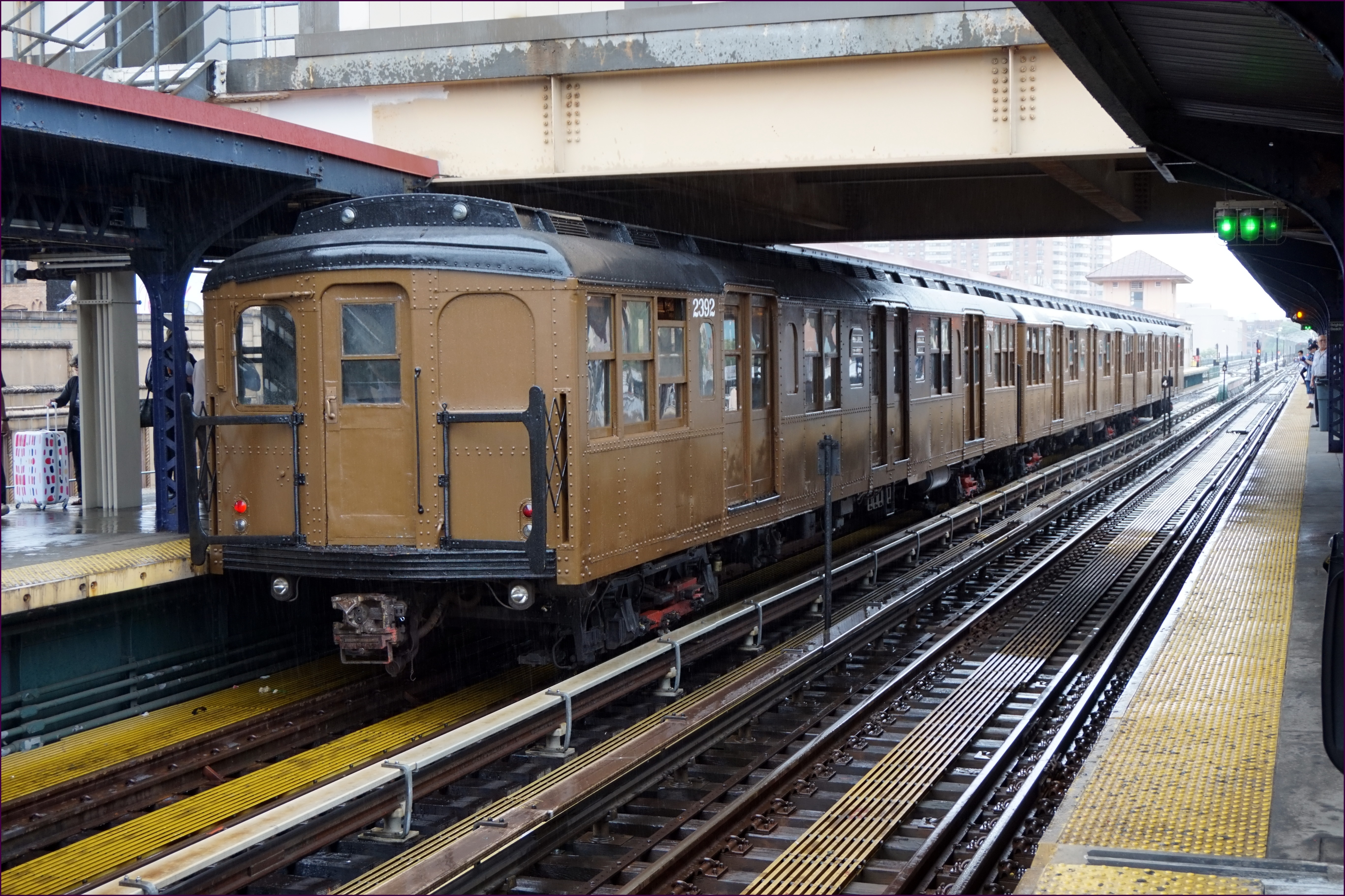 BMT Centennial in Brighton Beach